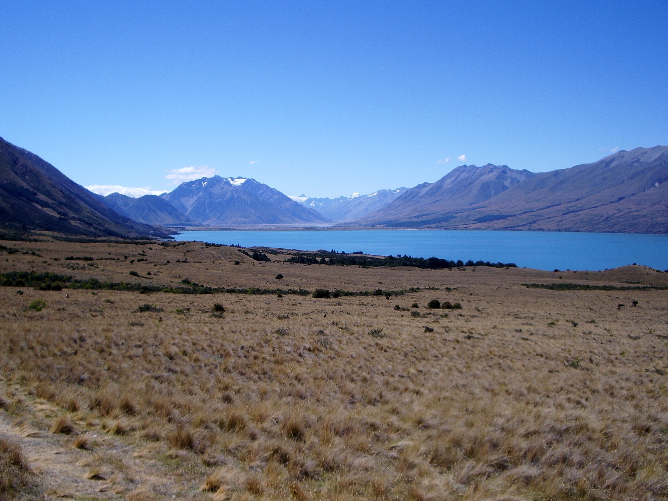 View of Lake Ohau from near Skifield road in summer